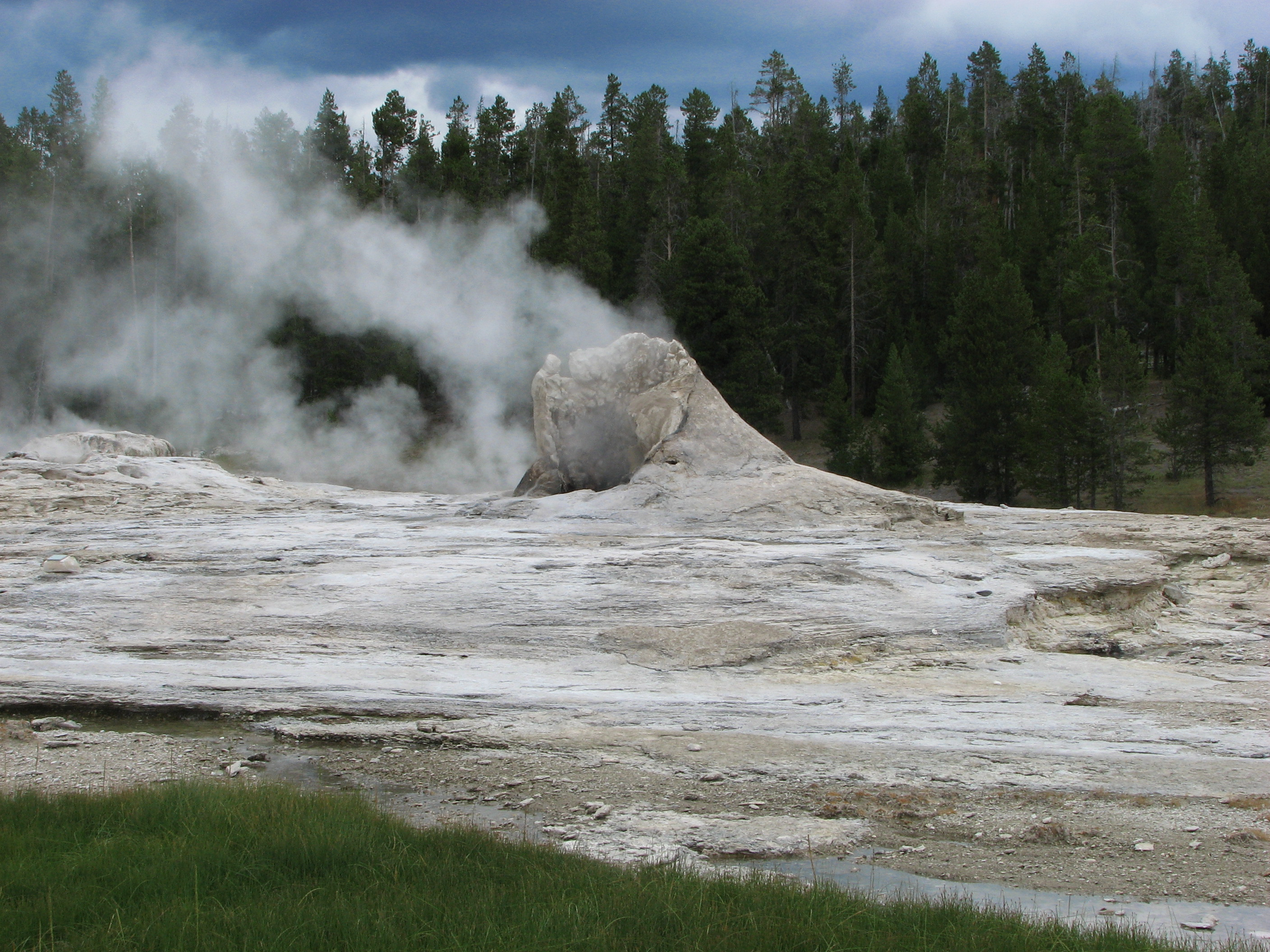 Cone of Giant Geyser in Upper Basin at Yellowstone Park